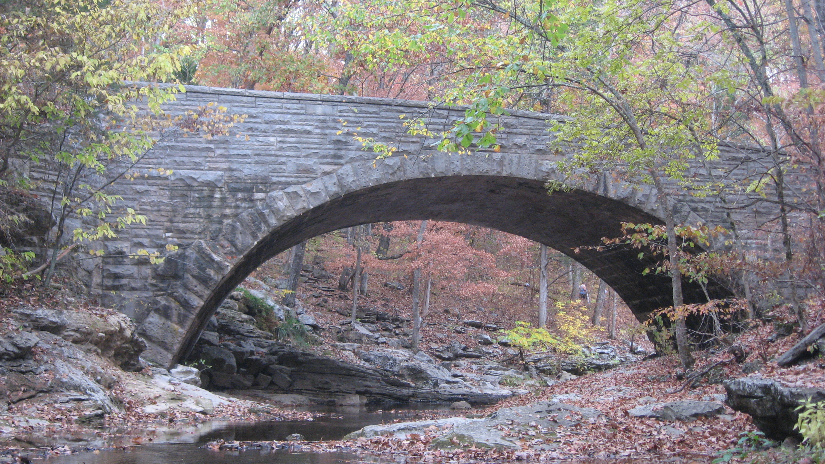 Western side of the Stone Arch Bridge over McCormick's Creek, which carries a road over McCormick's Creek in McCormick's Creek State Park east of Spencer in Washington Township, Owen County, Indiana, United States. Built by the Civilian Conservation Corps in 1933, it is listed on the National Register of Historic Places.